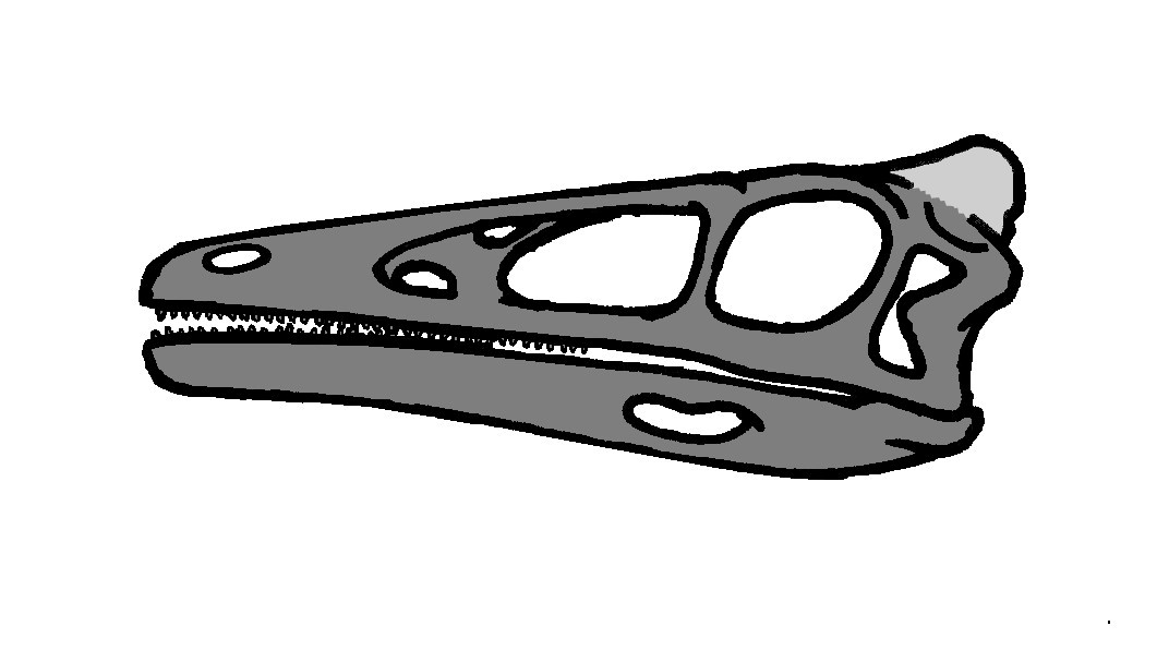 Illustration of the skull from the theropod dinosaur Pelecanimimus. The small crest in back of the head ( colored in light grey ) was probably made by keratin. Pelecanimimus differ from other ornithomimosaurs by it had small teeth.